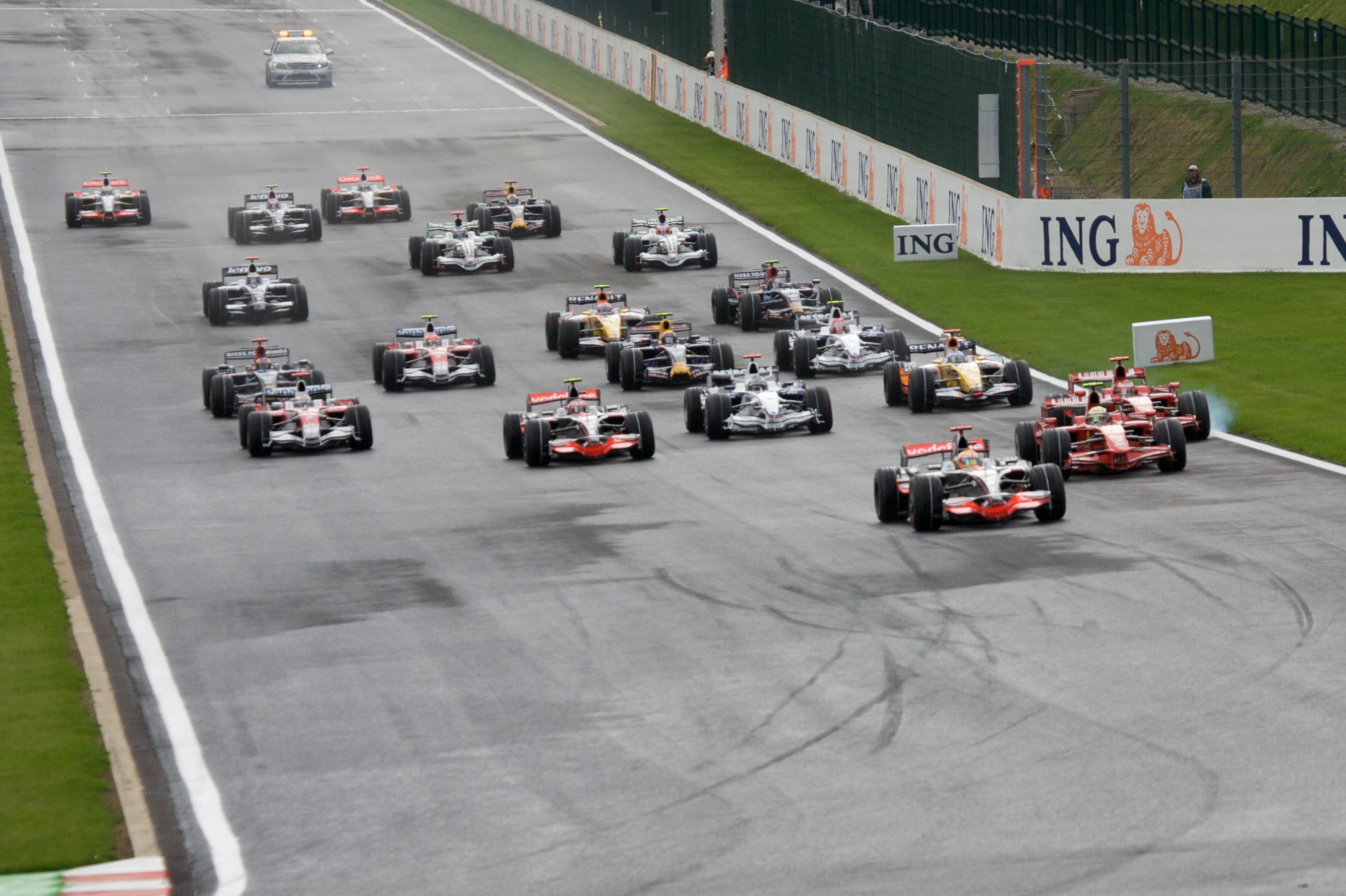 The start of the 2008 Belgian Grand Prix.